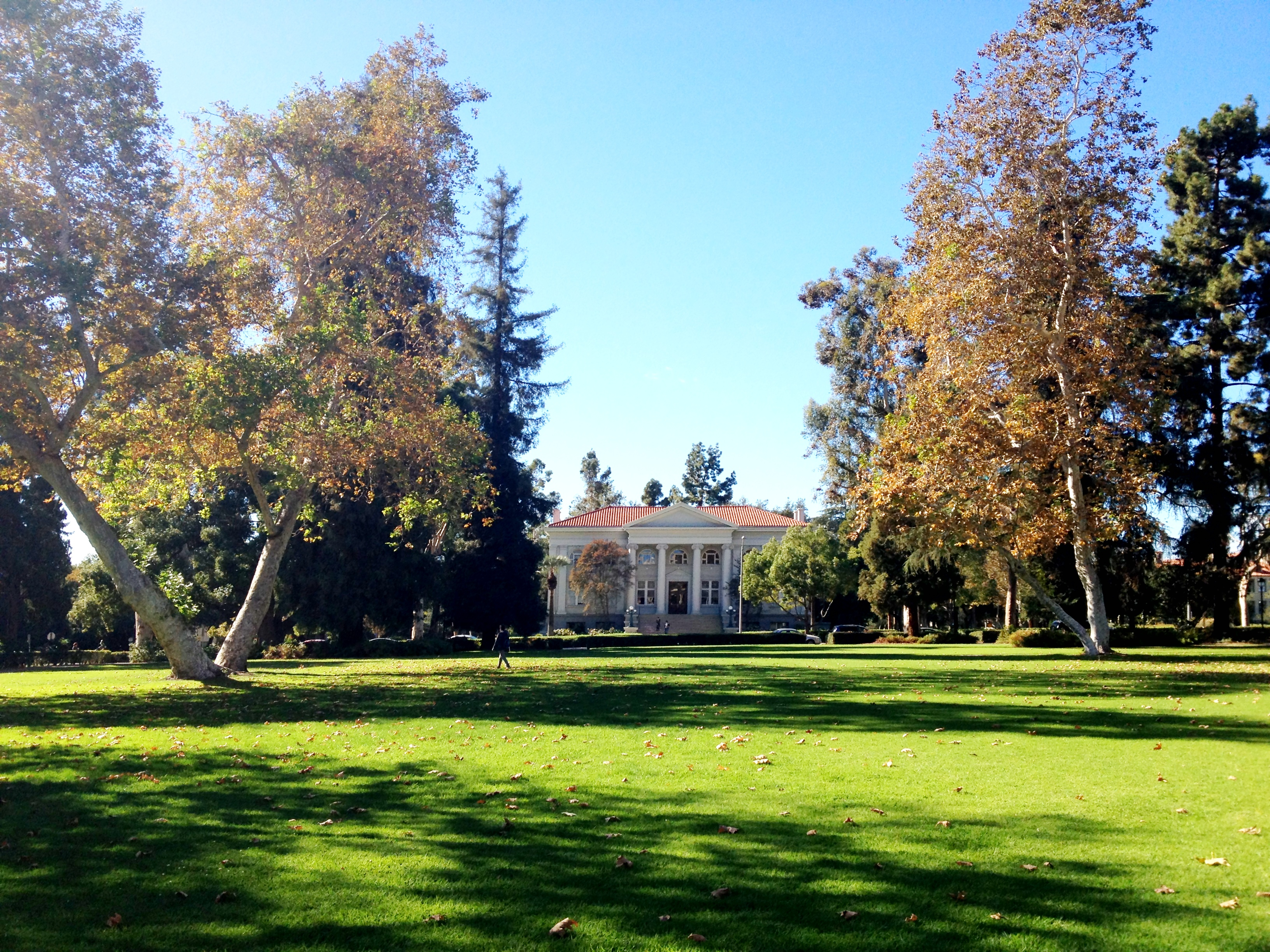 With a view of Carnegie, Pomona's economics building. Claremont, CA.